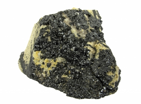 6.2 x 4.4 x 3.2 cm. Discovered in 1979, povondraite is a relatively new member of the Tourmaline Group. The crystals here are black, lustrous, and 1-2 mm in size. They richly cover one side of the matrix, and the povondraite winds its way through the fissures in the rock. The host rock, by the way, is the very unusual Locotal Breccia, a metamorphosed evaporite deposit. A fine example of this new species, and even better in person, with the luster really shines. Originally acquired from Alfredo Petrov and John Attard. Alfredo brought them out of Bolivia at the time, directly. Ex. Hoppel Collection. From: Alto Chapare mining district, Chapare Province, Cochabamba, Bolivia